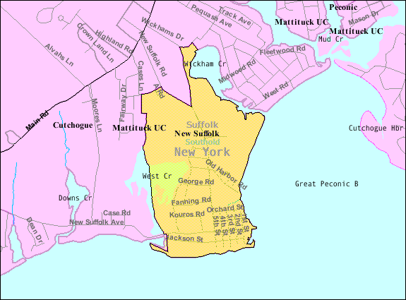 U.S. Census 2000 reference map for New Suffolk